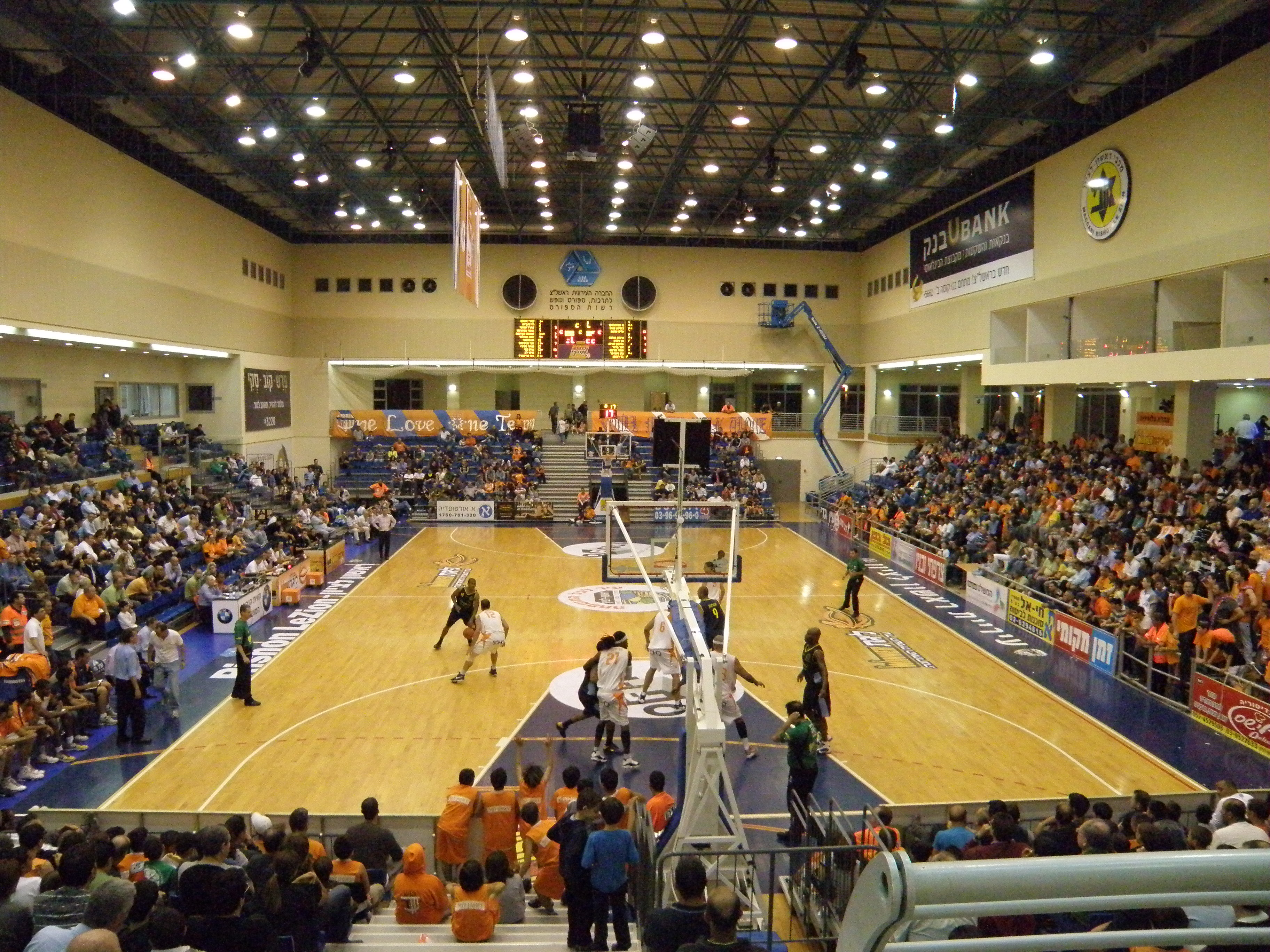 Bet Maccabi during a game between Maccabi Rishon LeZion and Ironi Ramat-Gan, 2010